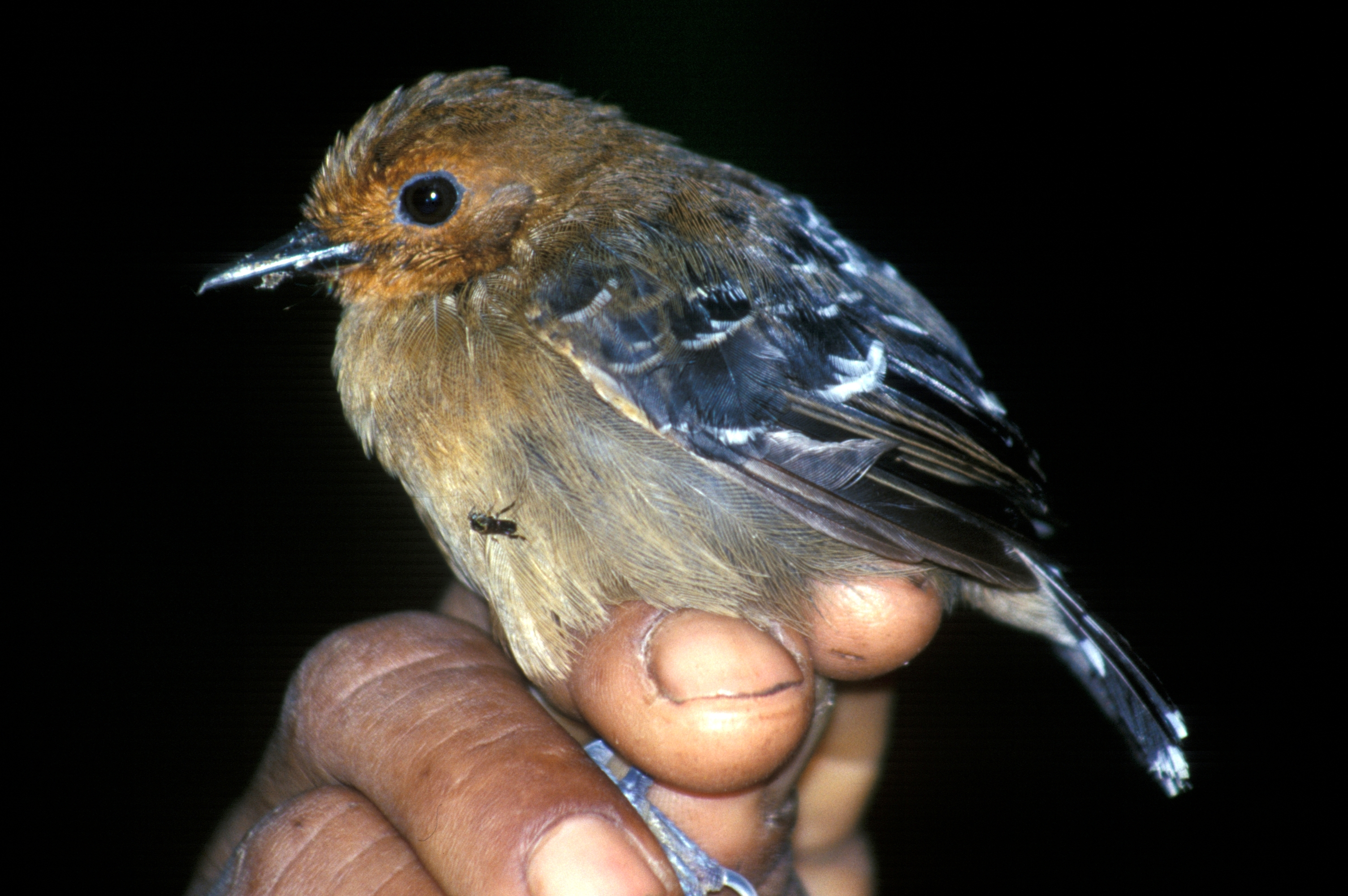 Scale-backed Antbird, a female photographed in Cordillera del Cóndor, Ecuador. There is an insect in the photograph on the bird, which is most probably incidental.